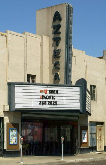 The Azteca Theater in Fresno, California — in 2006. Located in Chinatown, Fresno.